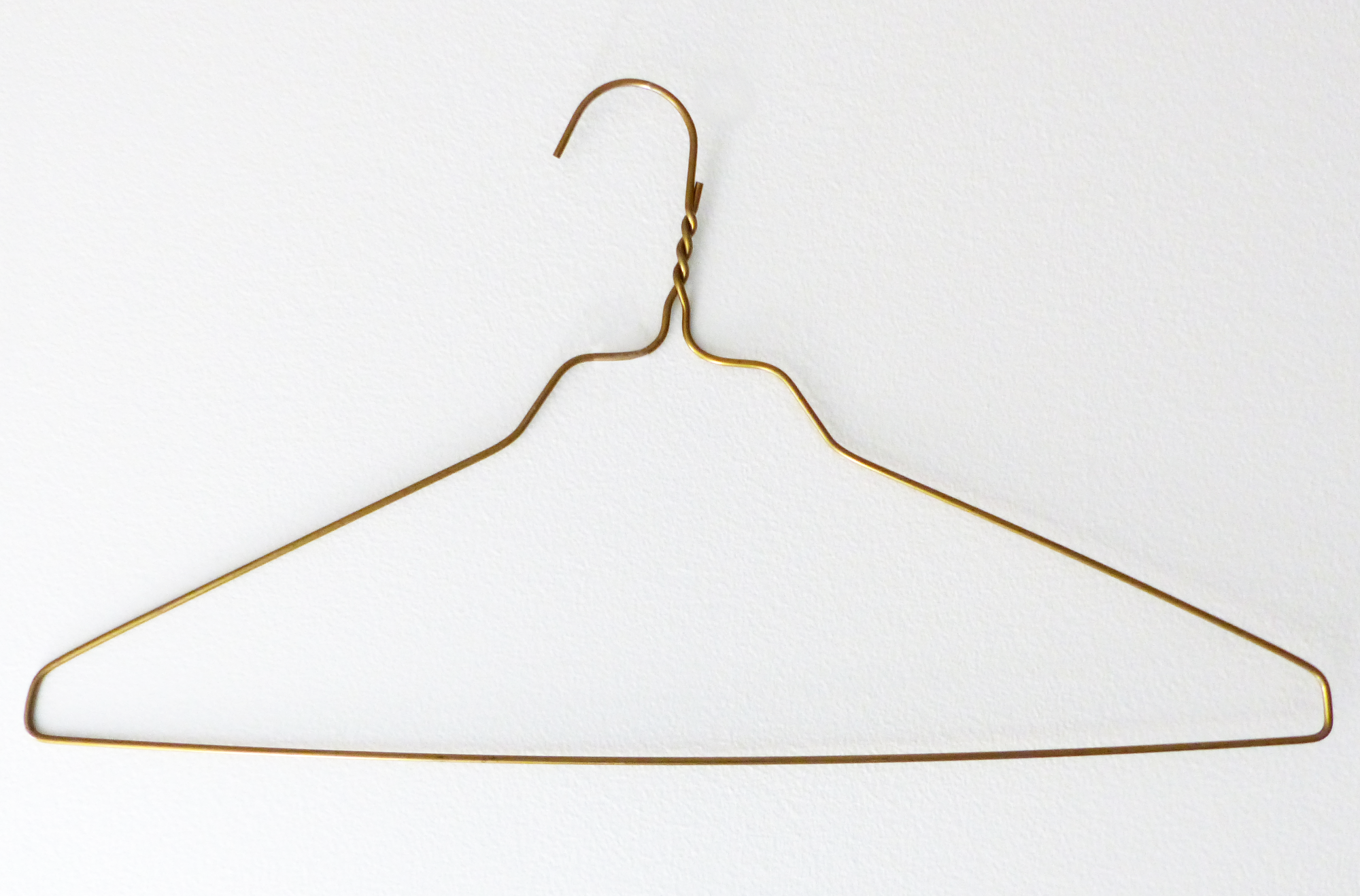 Cheap clothes hanger, coated metal wire.